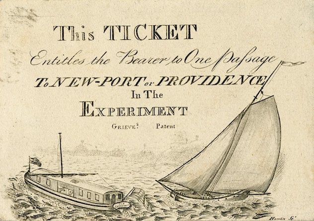 Ticket for the riverboat "The Experiment"